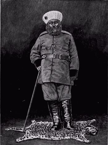 Abdur Rahman Khan - Project Gutenberg eText 16528From Project Gutenberg's Forty-one years in India, by Frederick Sleigh Roberts